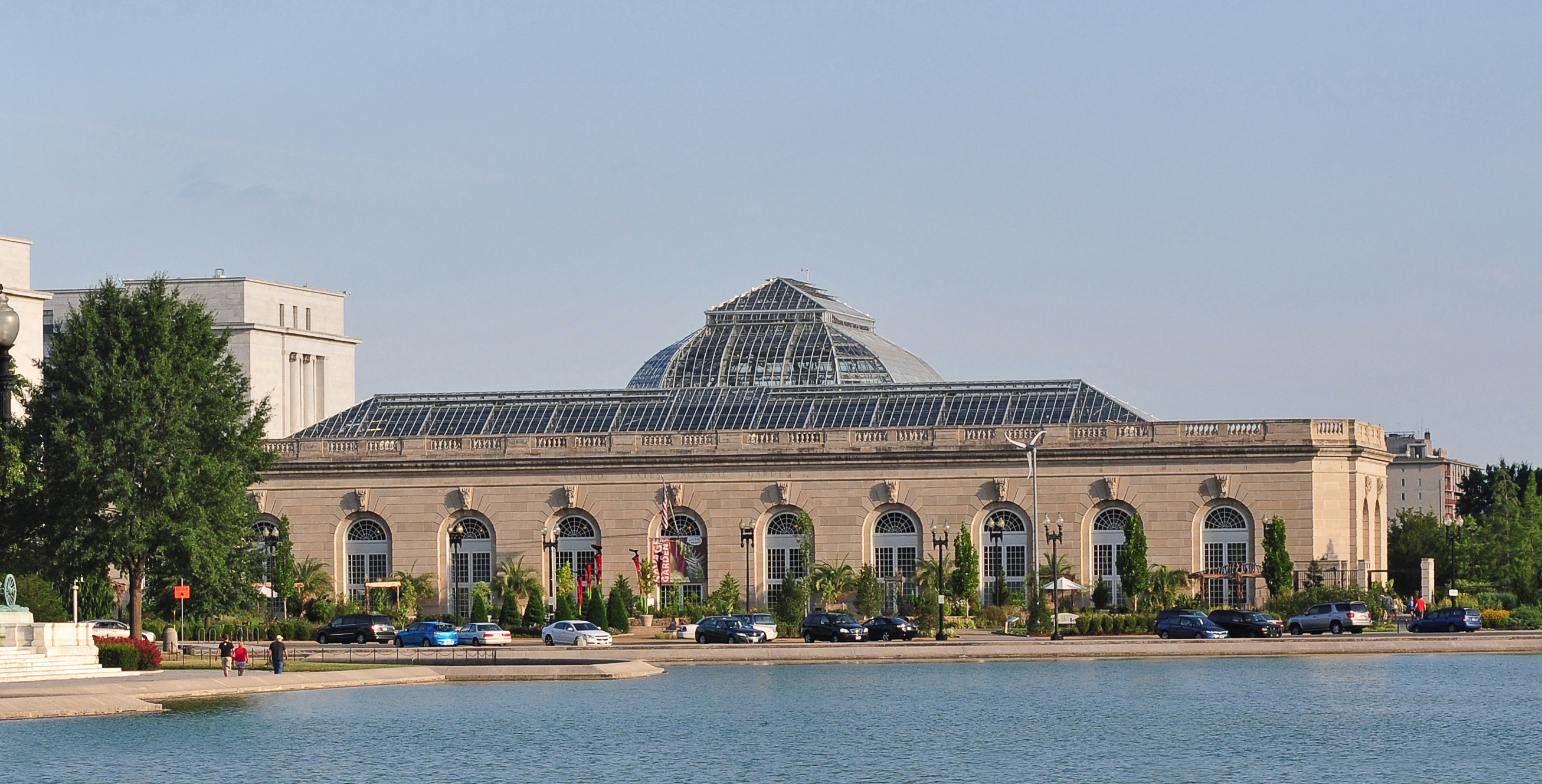 United States Botanic Garden, Washington D.C. The making of this work was supported by Wikimedia Austria. For other files made with the support of Wikimedia Austria, please see the category Supported by Wikimedia Österreich.